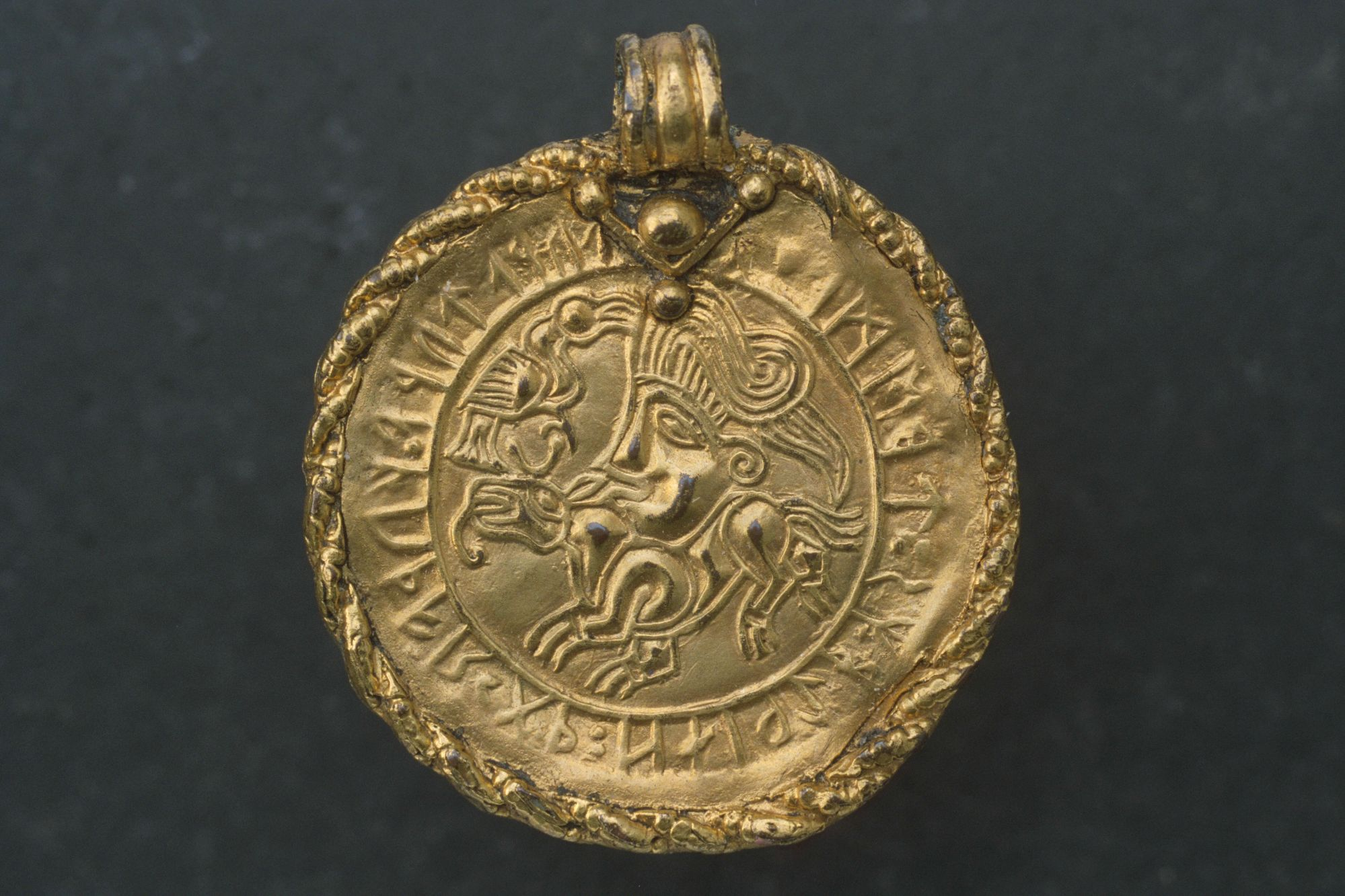 Guldbrakteat från trakten av Vadstema, Östergötland, brukad 400 e.Kr. - 549 e.Kr. i Vadstena (i trakten av), Vadstena. Brakteaten blev stulen 1938 från Historiska museet i Stockholm och har ännu inte återfunnits.